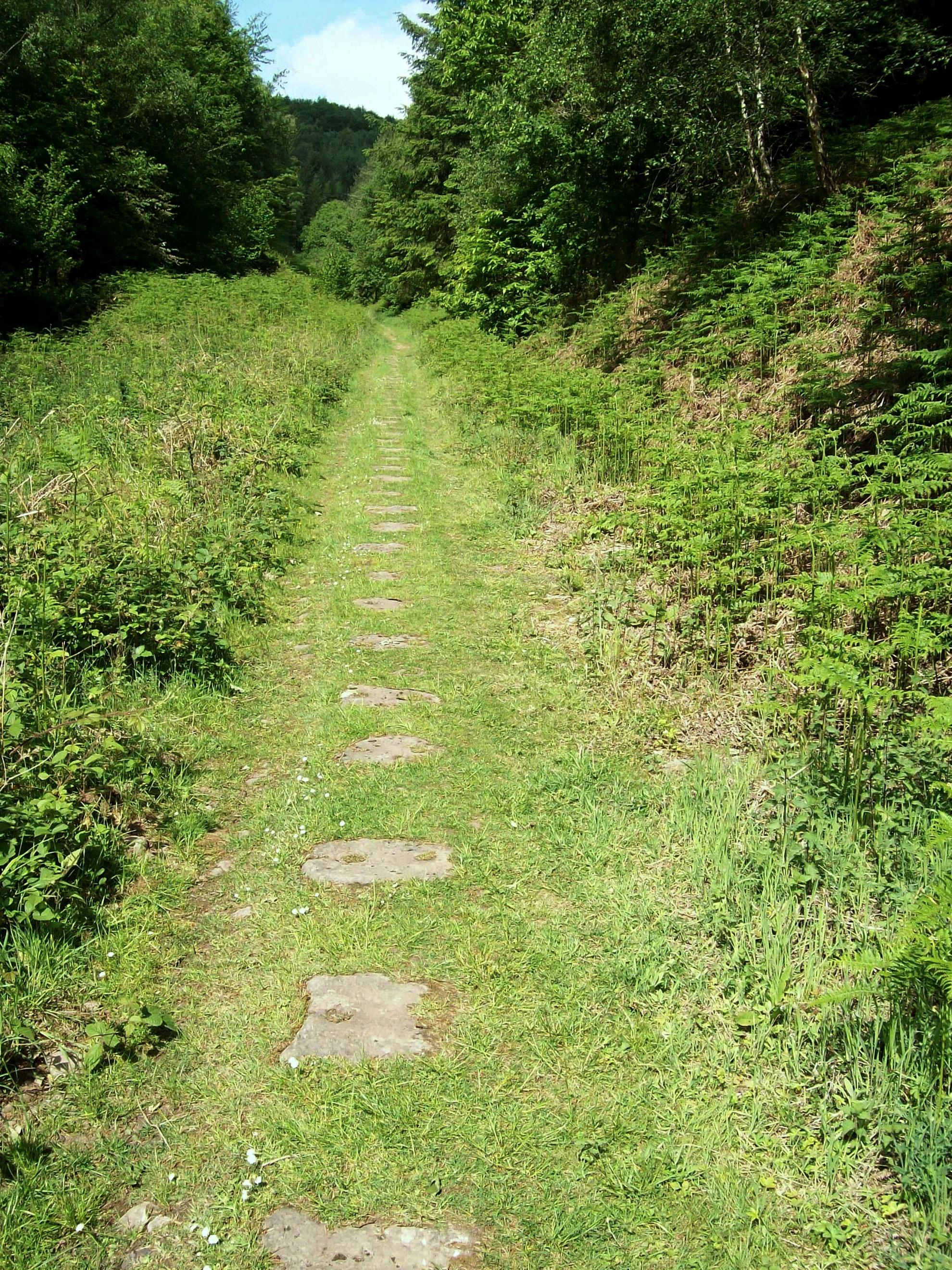 Stone sleeper stone from the Bicslade Tramroad, in the Bixslade valley